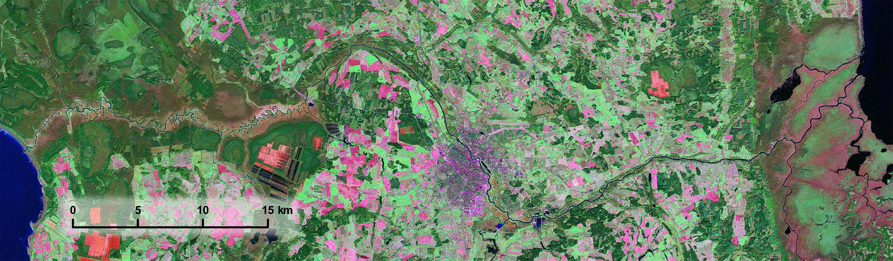 Emajõgi shown on Landsat satellite image. Source of the river: Võrtsjärv on the left; mouth:Lake Peipsi on the right. The town of Tartu in the middle.